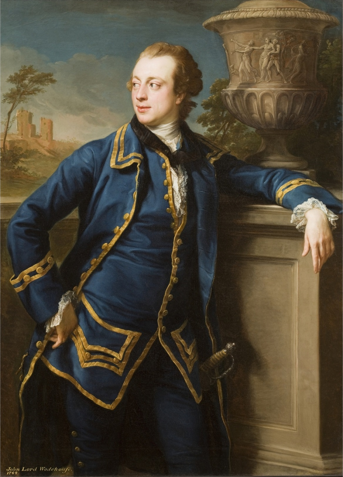 Depicted person: John Lord Wodehouse (1741-1834) 1st Baron Wodehouse; 6th Baronet; British peer and Member of Parliament